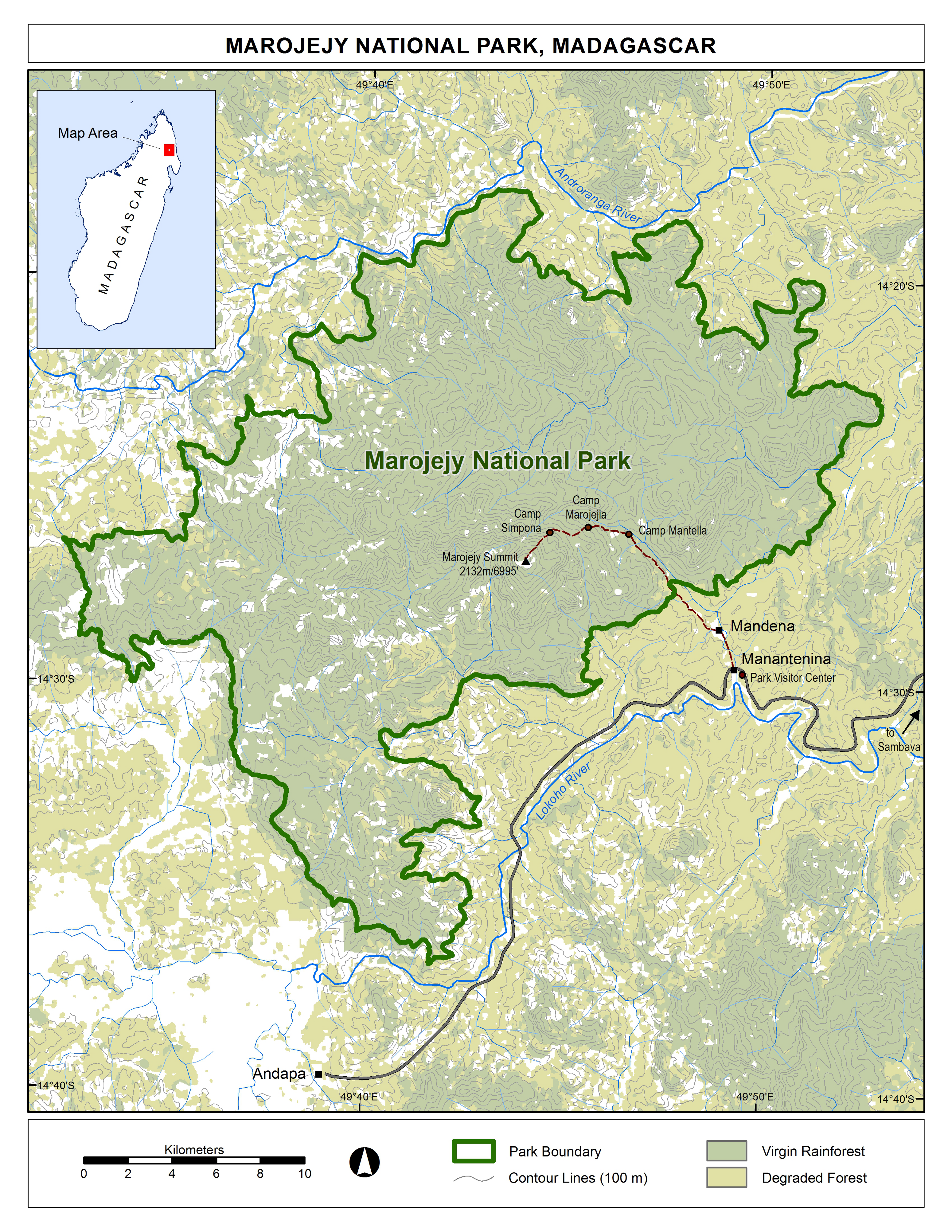 Map of Marojejy National Park, Madagascar showing the hiking trail from the visitor center, surrounding villages and roads, forest cover, and contour lines.